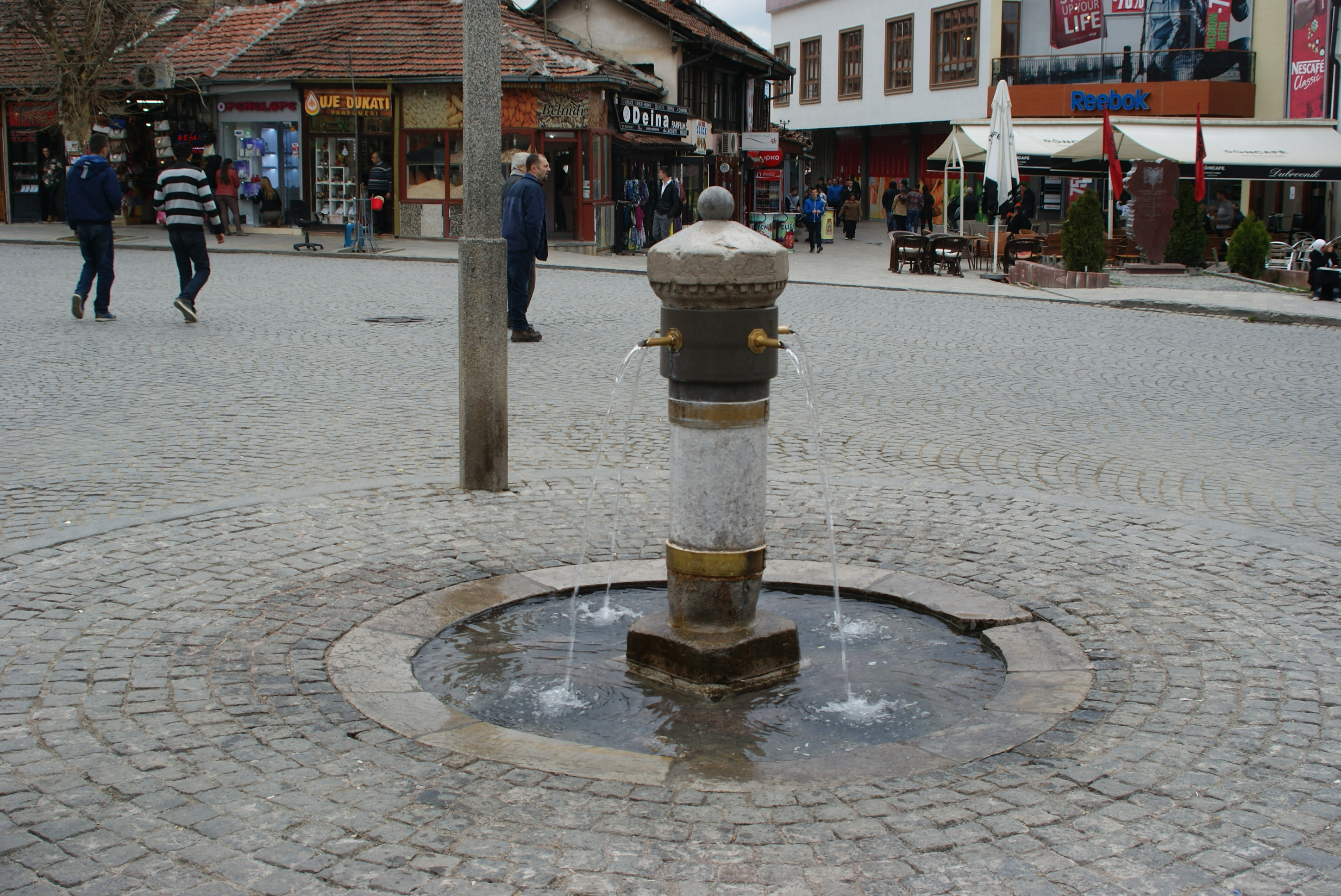 Kroi i Shatervanit